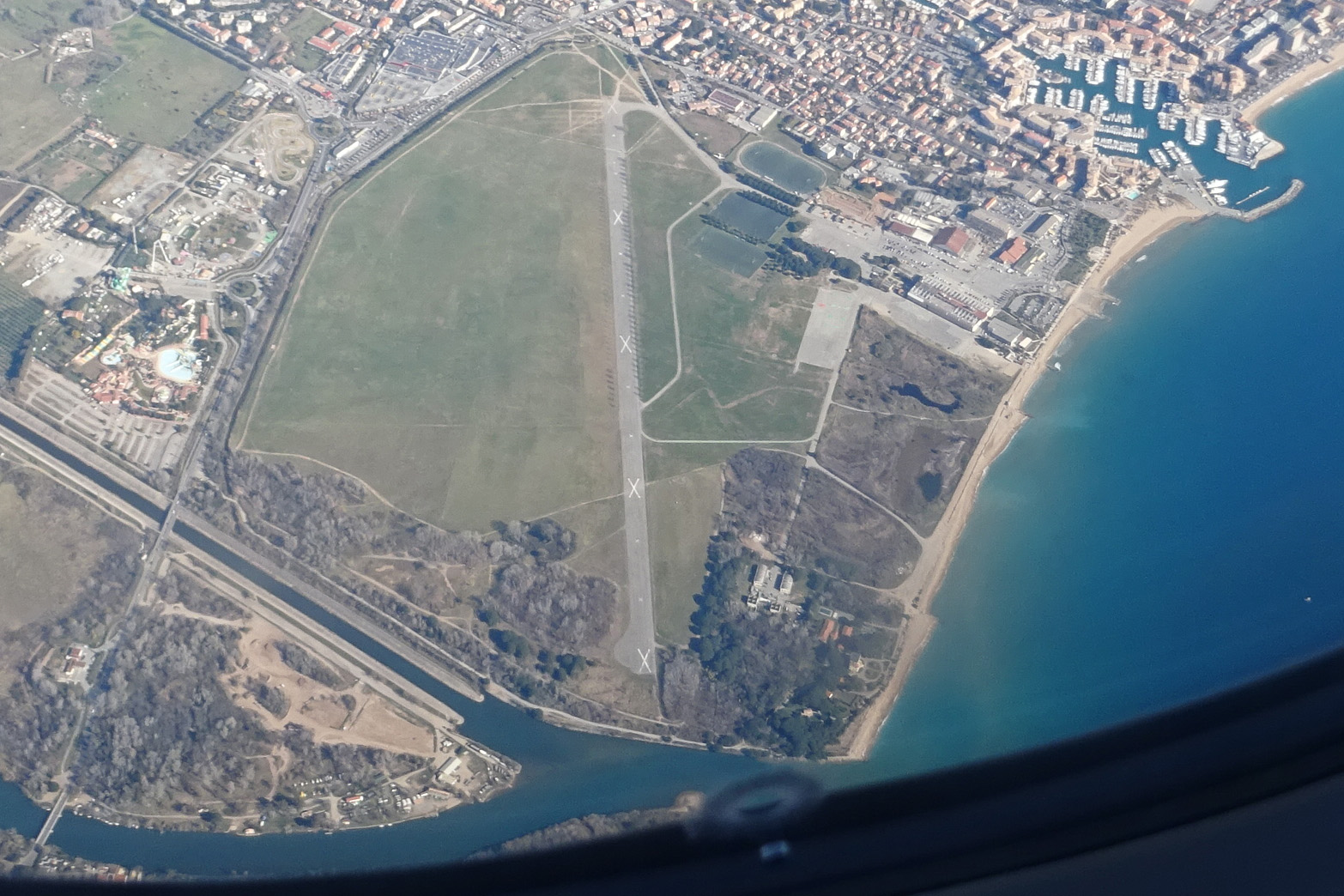 Old airport of Frejus ex french navy airport